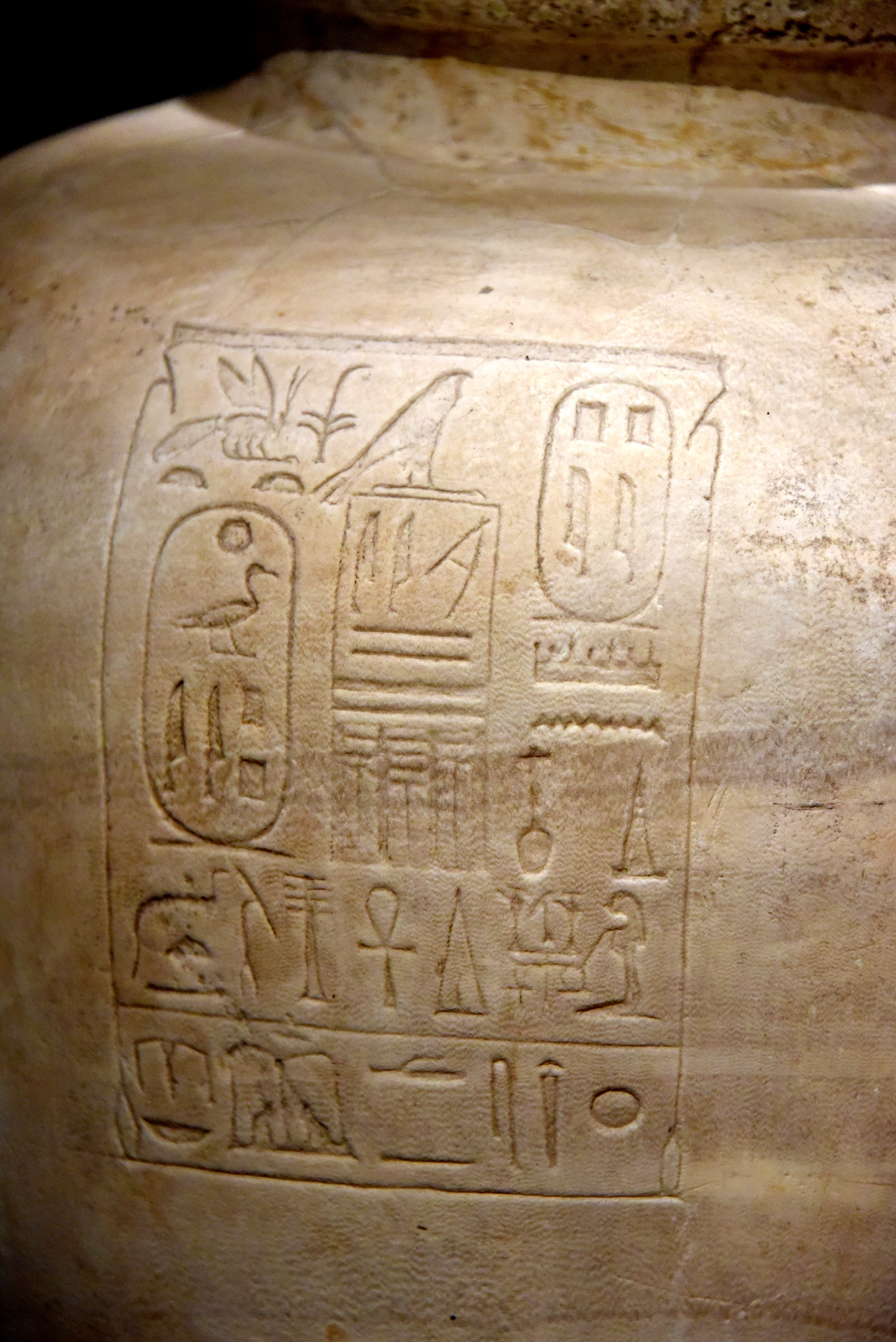 Detail of a large ovoid calcite-alabaster jar showing the names of pharaoh Pepi I and his Pyramid complex and mentioning his first Seb festival. Old Kingdom, 6th Dynasty, 2335-2285 BCE. From Egypt, probably from Memphis. Neues Museum, Berlin, Germany.